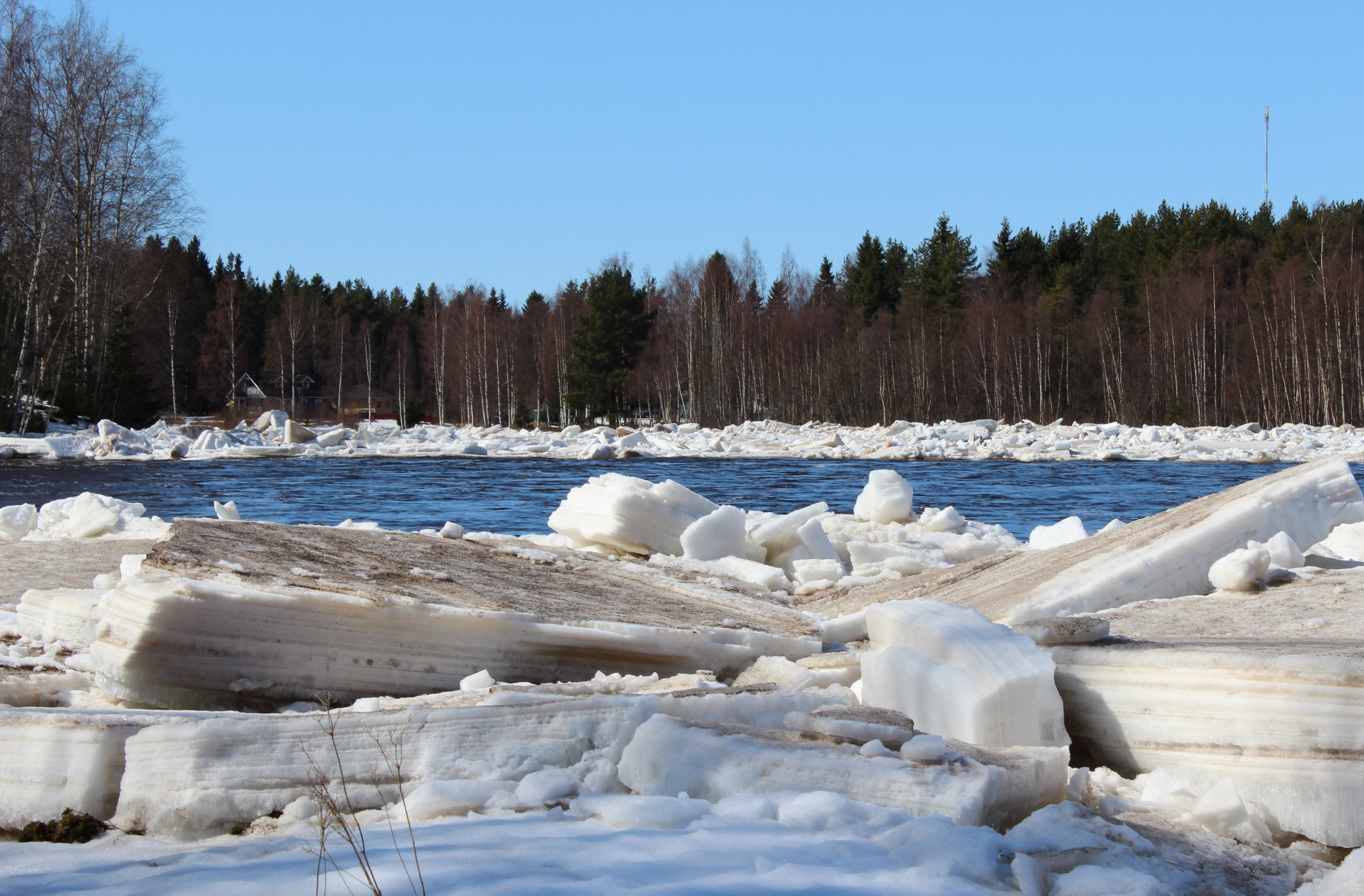 The Pietinsaari island divides the Kiiminkijoki river into two channels of which the main stream channel has been blocked by an ice dam. Water flows through the minor channel.